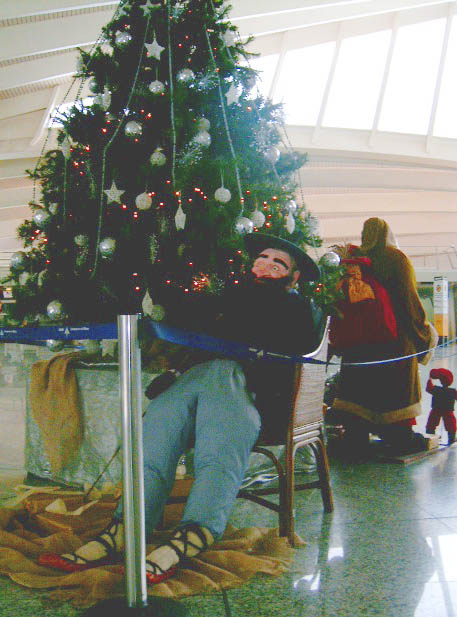 *Description: Bilbao-Loiu airport, Biscay, Spain. Olentzaro, Christmas tree, Santa Claus and elf. Photographer: Javier Mediavilla Ezquibela Date: January 6, 2005.